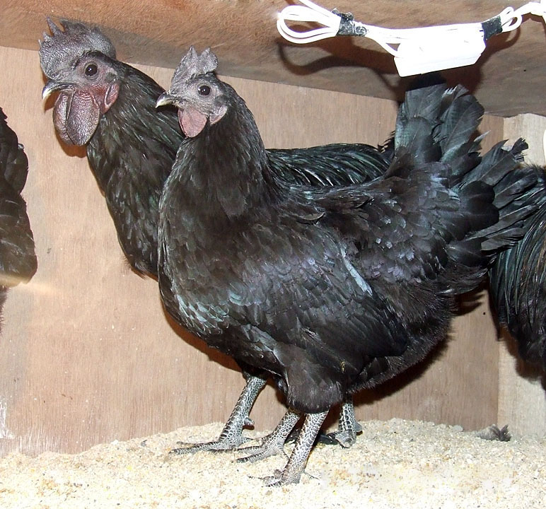 Kadaknath Chicken - breed of chicken found in India known for being mostly black, having black meat, bones and even dark organs.